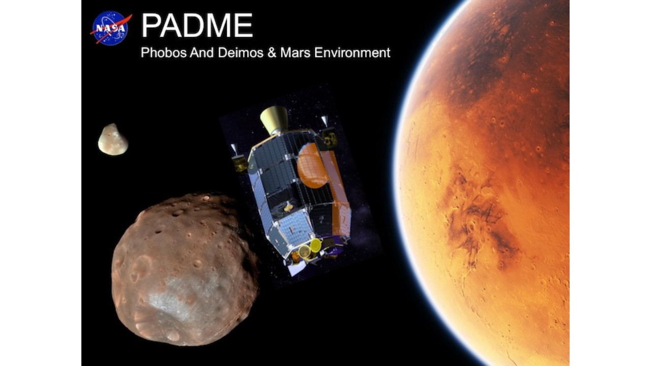 Phobos And Deimos & Mars Environment (PADME) is a proposed low-cost, NASA Mars orbiter mission that will address longstanding unknowns about Mars’s two moons and the circum-martian environment. PADME mission is led by Pascal Lee, and is competing for Discovery Program funding. The proposed launch is 2018 on a Falcon 9 rocket.